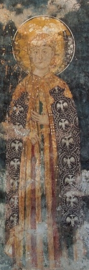 Fresco of Simeon Siniša,half-brother of Dušan Silni,part of Dušan`s fammily composition,Visoki Dečani,Serbia.